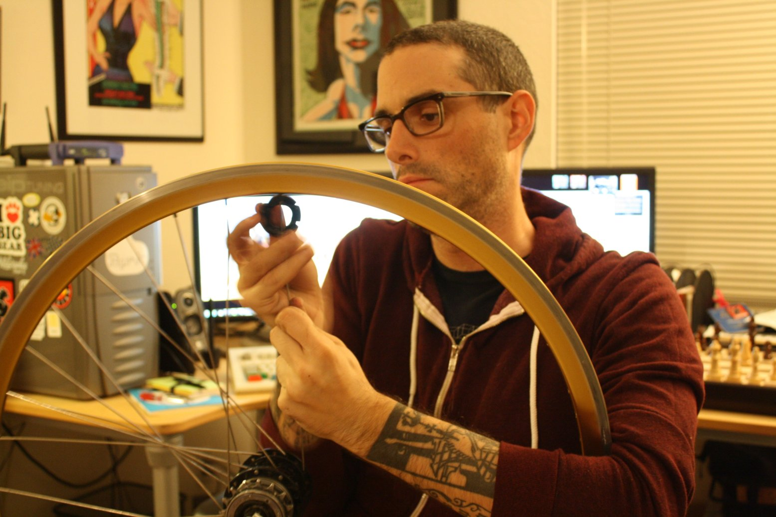 Photo of Joshua Eric Sawyer removing spokes from a bicycle wheel.